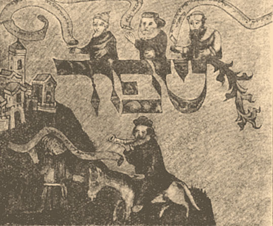 Illustration from Brockhaus and Efron Jewish Encyclopedia (1906—1913)